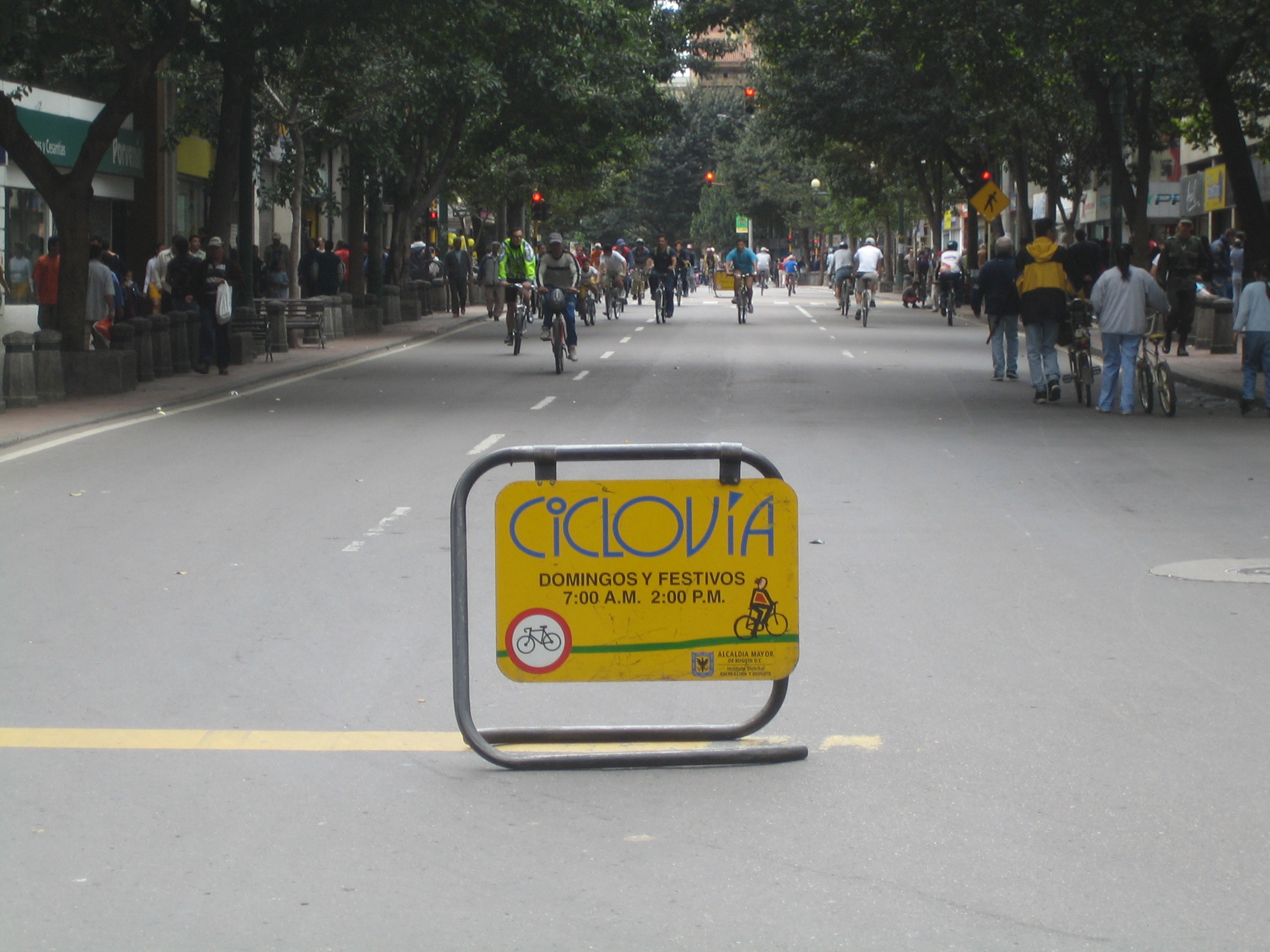 Sunday is Cycling day in downtown Bogota (Colombia)